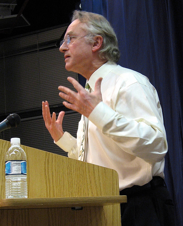 Richard Dawkins talking at Kepler's bookstore, cropped and sharpenedRichard Dawkins’ Sunday Sermon